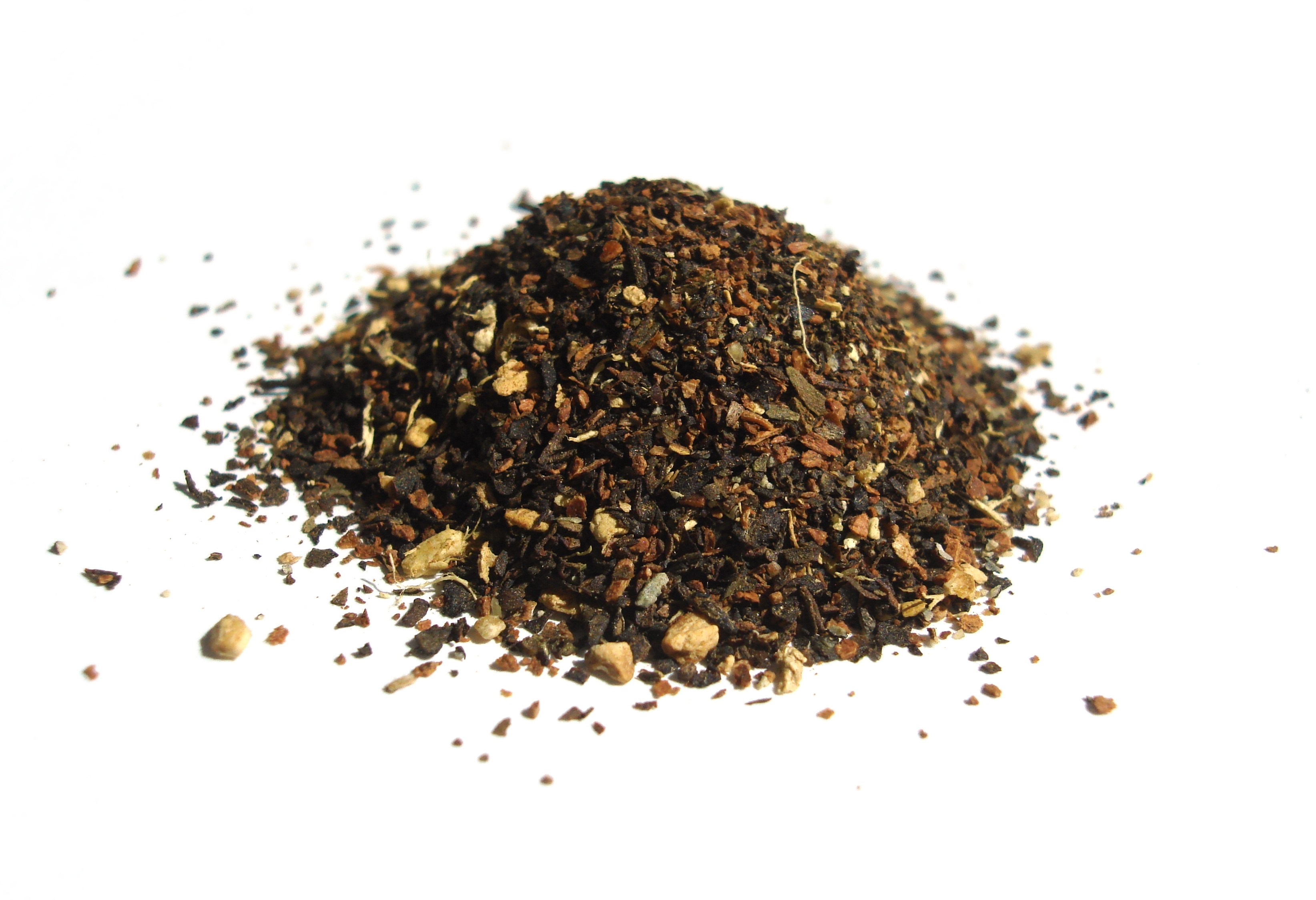 Chai tea, formerly in a tea bag; the leaves and spices that give it the distinct flavour.